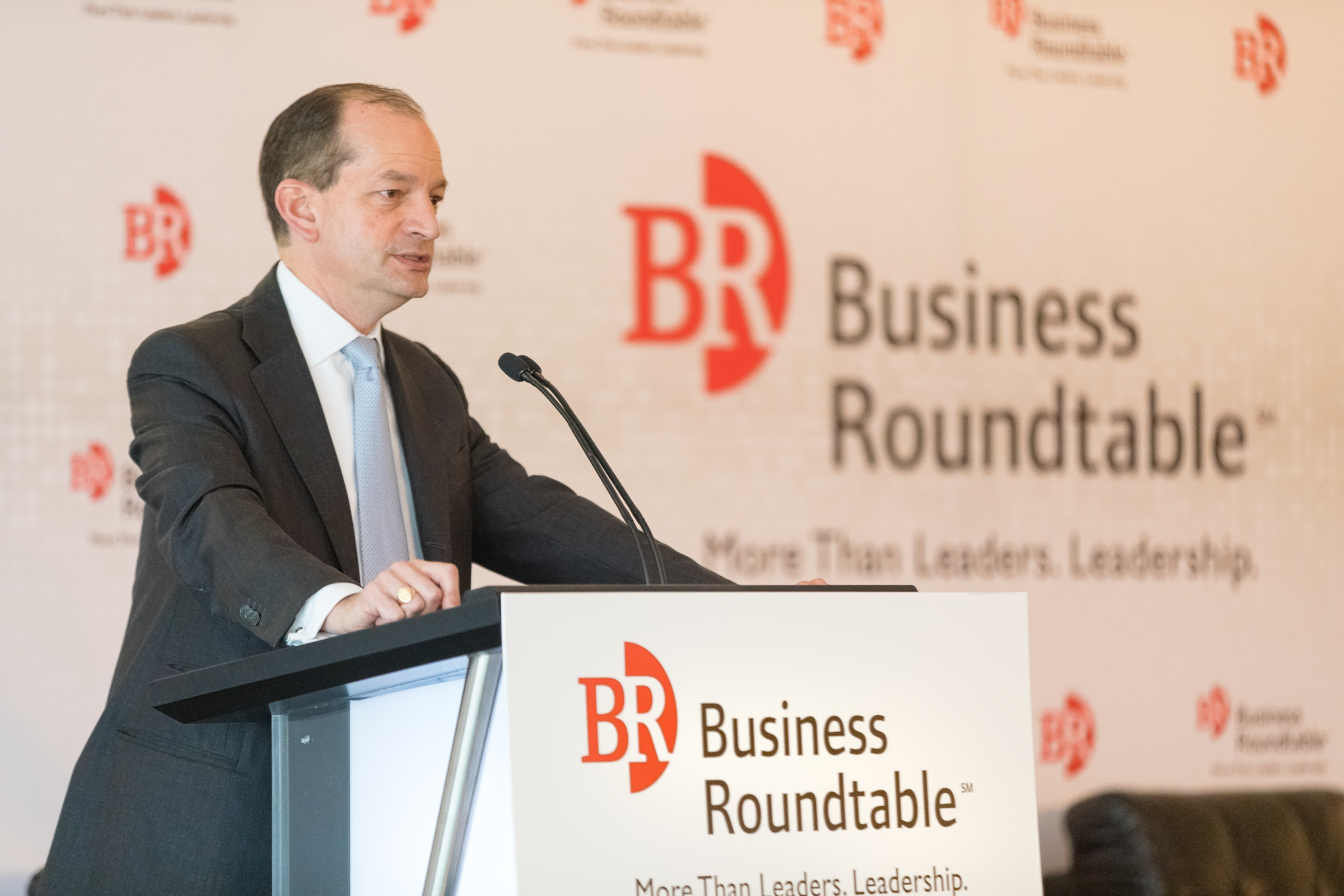 7 June 2017 - Washington, D.C. - U.S. Secretary of Labor Alexander Acosta addresses the Business Roundtable discussion “Work In Progress How Ceos Are Helping Close America's Skills Gap”. Official Department of Labor Photograph*** Photographs taken by the federal government are generally part of the public domain and may be used, copied and distributed without permission. Unless otherwise noted, photos posted here may be used without the prior permission of the U.S. Department of Labor. Such materials, however, may not be used in a manner that imply any official affiliation with or endorsement of your company, website or publication. Photo Credit: Department of Labor Shawn T Moore